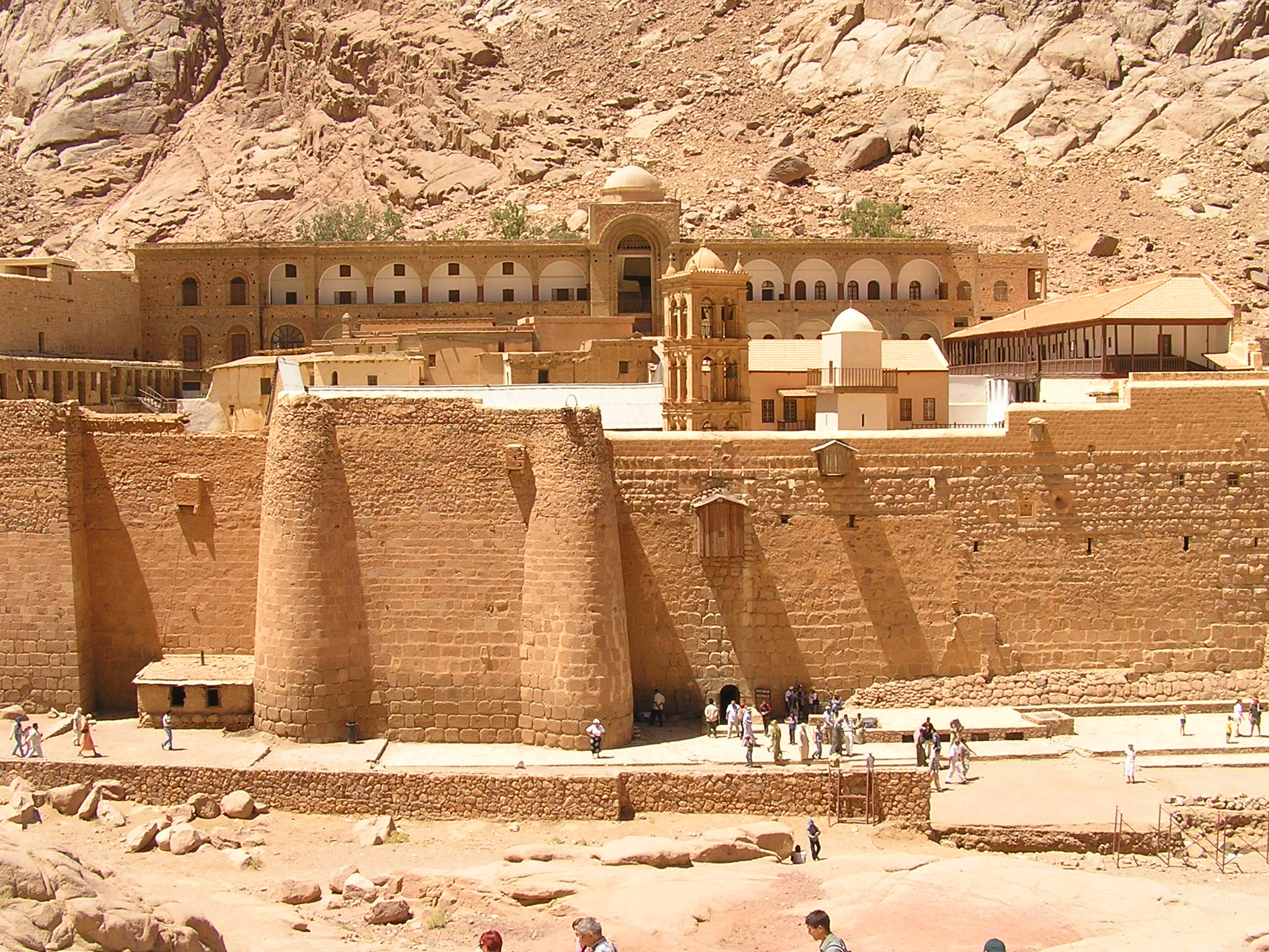 Saint Catherine's Monastery, Sinai, Egypt